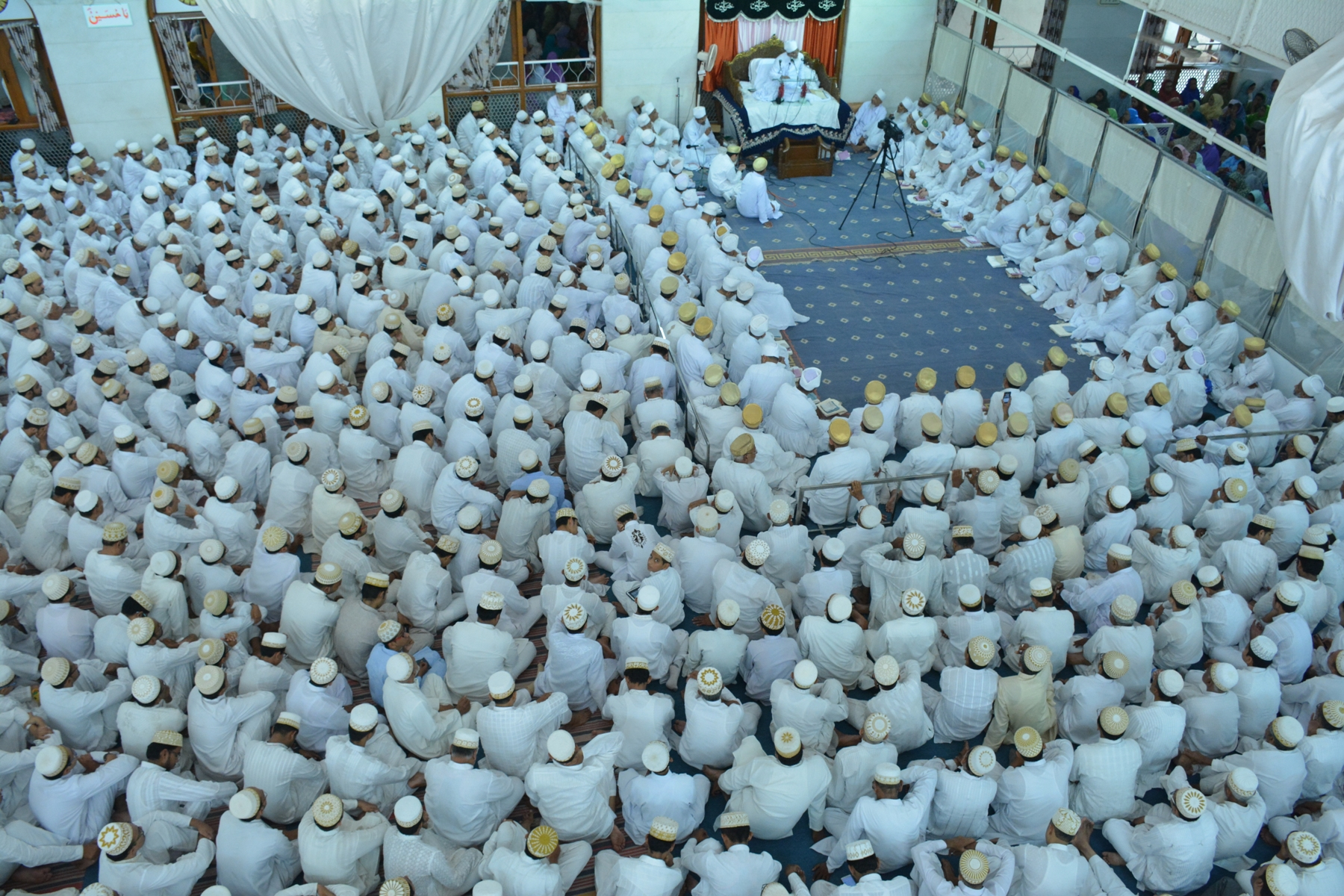 the majlis of moharram 1438